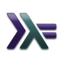 Haskell Logo Variation created in Inkscape